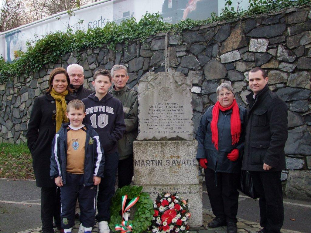 Relatives of IRA Volunteer Martin Savage pictured at a commemoration to mark the 90th anniversary of his death. Also pictured are Sinn Féin Vice President Mary Lou McDonald and Dublin West representative Paul Donnelly.